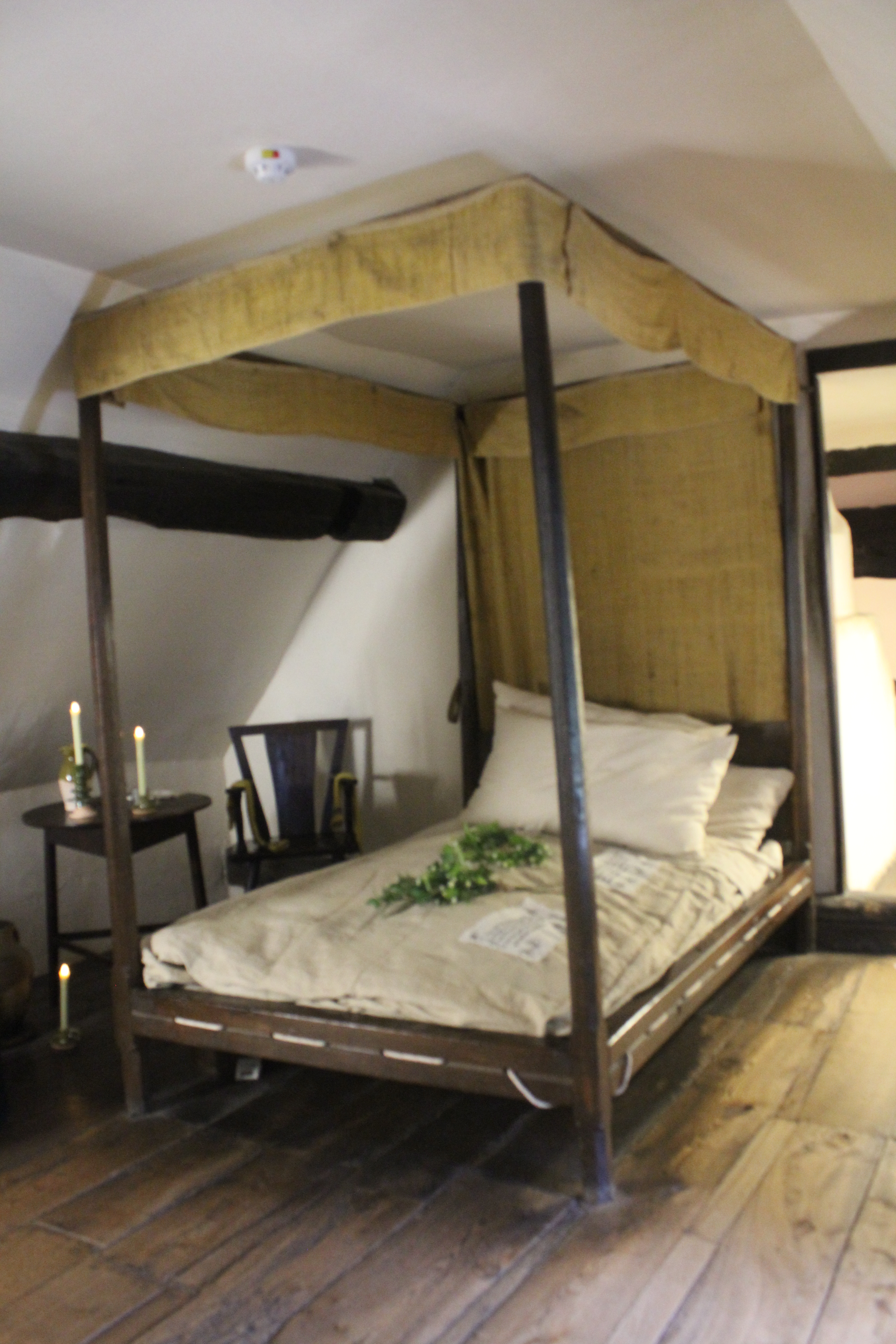 This bed in Anne Hathaway's Cottage is believed to the "second bed" (or matrimonial bed) that William Shakespeare left to his wife Anne (née Hathaway). The bed is documented as having been left to the Hathaway family by Elizabeth, Lady Barnard, Shakespeare's granddaughter and last surviving descendant. Historians working for the Shakespeare Birthplace Trust have postulated that Shakespeare's "second bed" passed from Anne to her daughter Susanna Hall and then to her daughter Elizabeth Barnard.